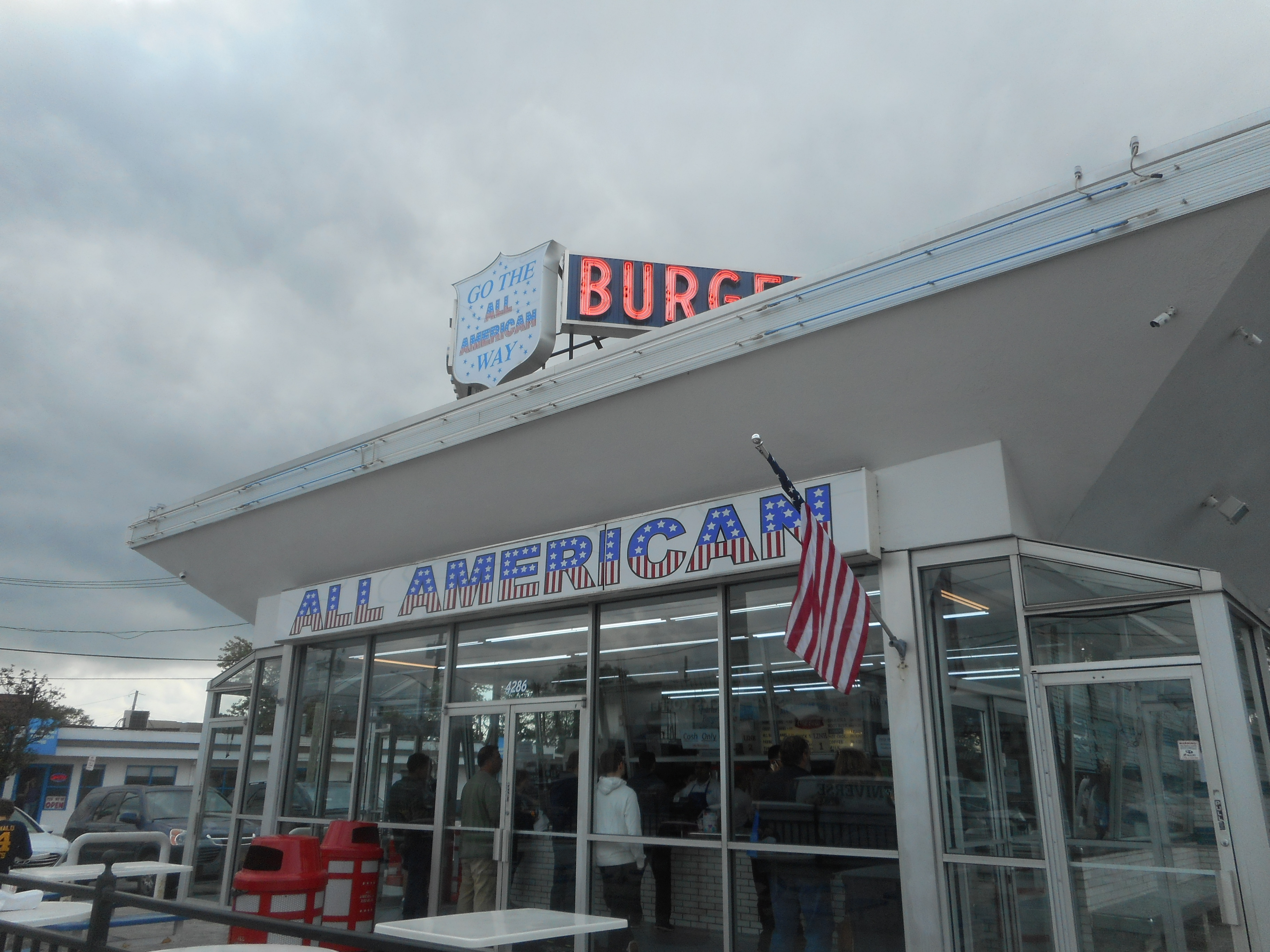 The ever popular All-American Hamburger Drive-In on the southwest corner of Merrick Road and West End Avenue in Massapequa, New York. Like the Horne's Restaurant in Port Royal, Virginia, it's the last surviving franchise of a dead fast-food chain, but is still an iconic local fast food joint, partially due to internet buzz on Long Island related websites. Even without the internet, it has served as an old-fashioned burger joint dating as far back as 1963.